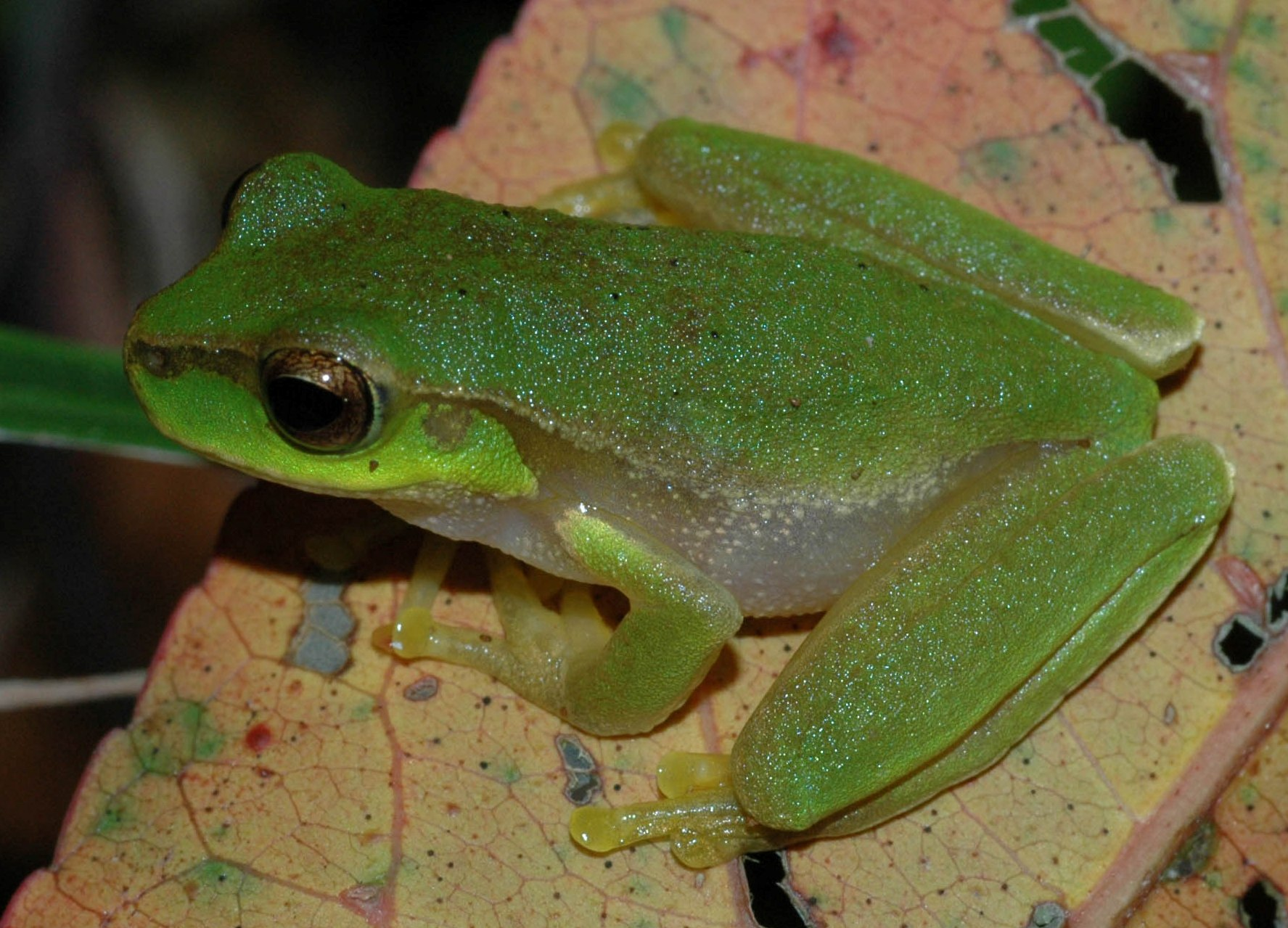 Litoria pearsoniana, Pearson's Tree Frog, Springbrook National Park, QLD, Australia.